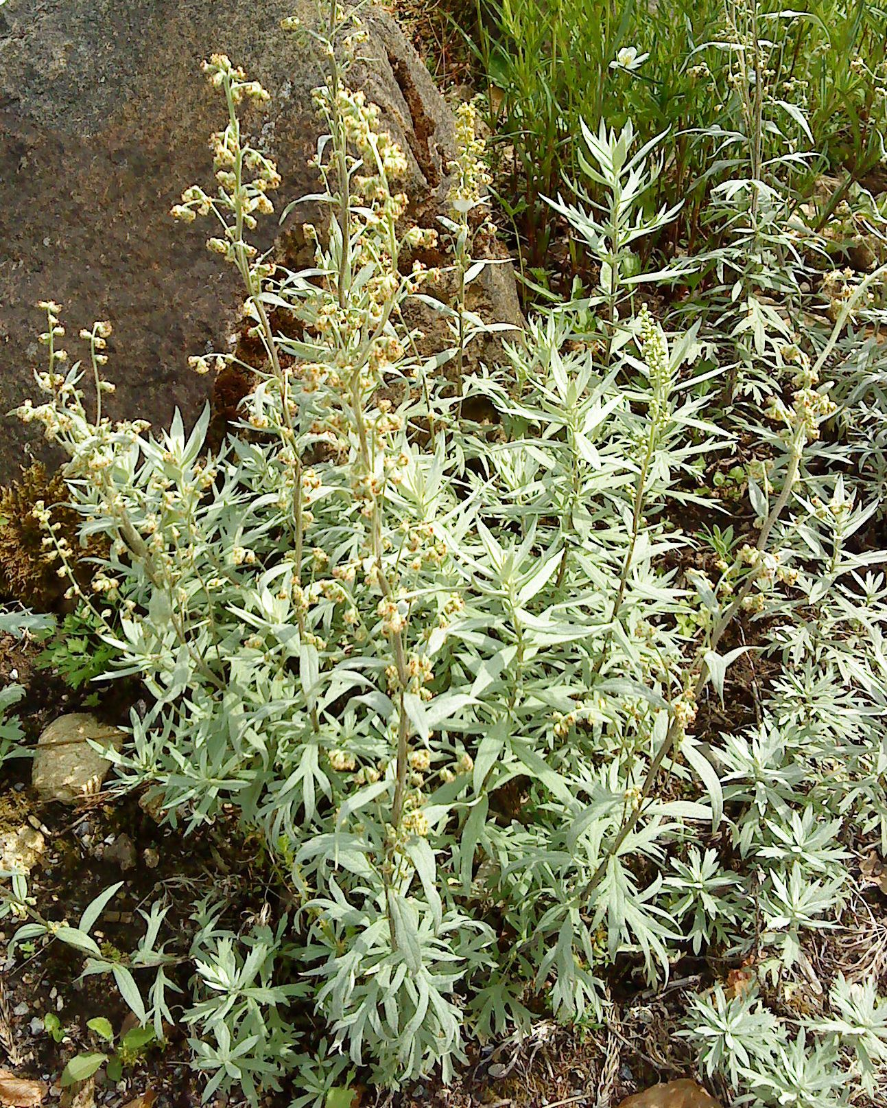 Mugwort (Artemisia douglasiana)